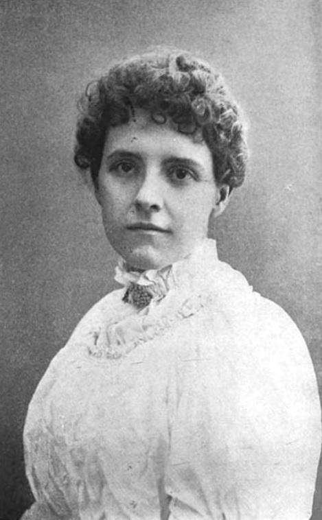 American actress Beatrice Cameron (1868-1940), probably sometime in the 1800s.